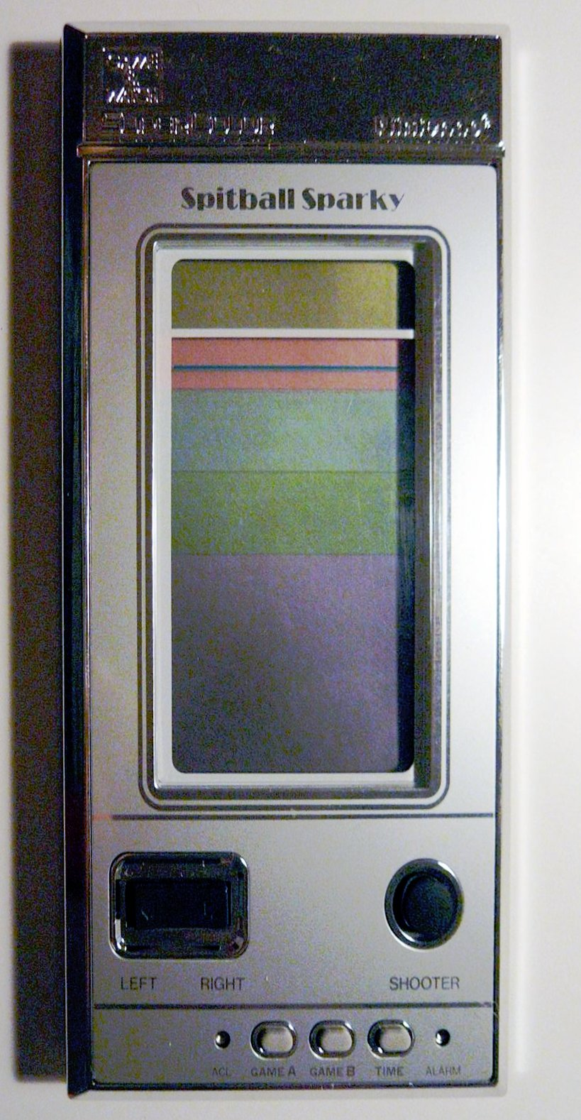 Spitball Sparky - Game&Watch - Nintendo